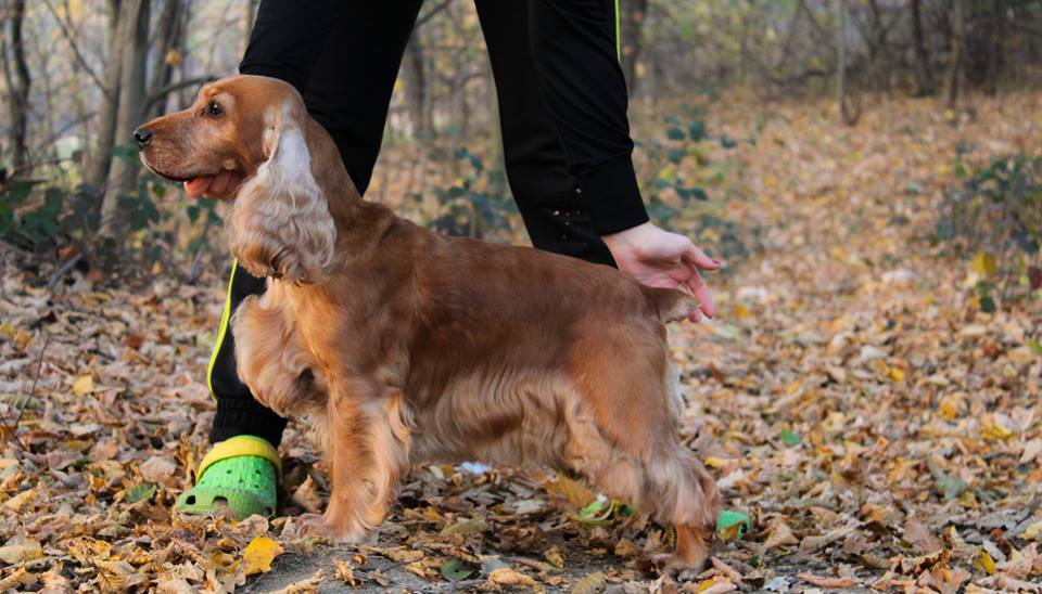 english cocker spaniel in show standing